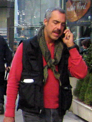 American actor Titus Welliver